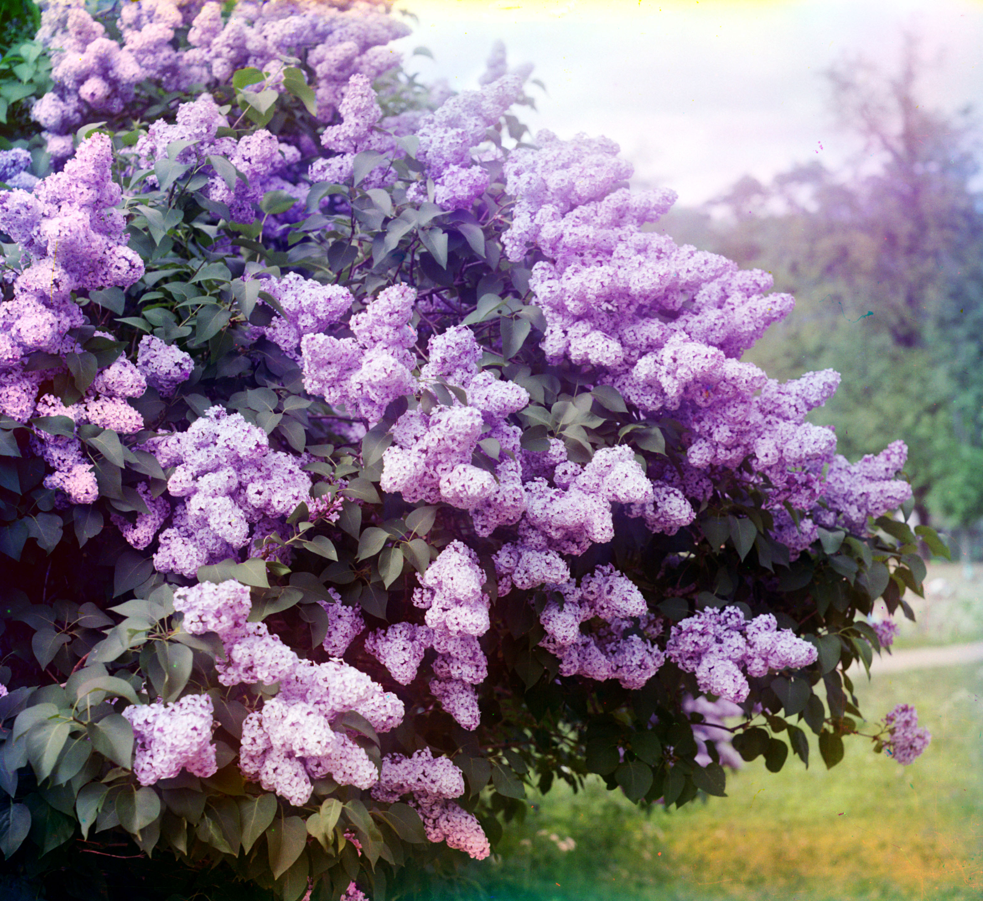 Lilacs